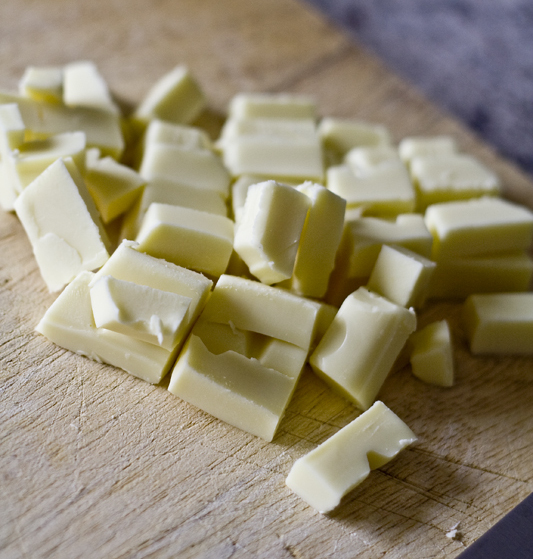 Chopped white chocolate chunks.